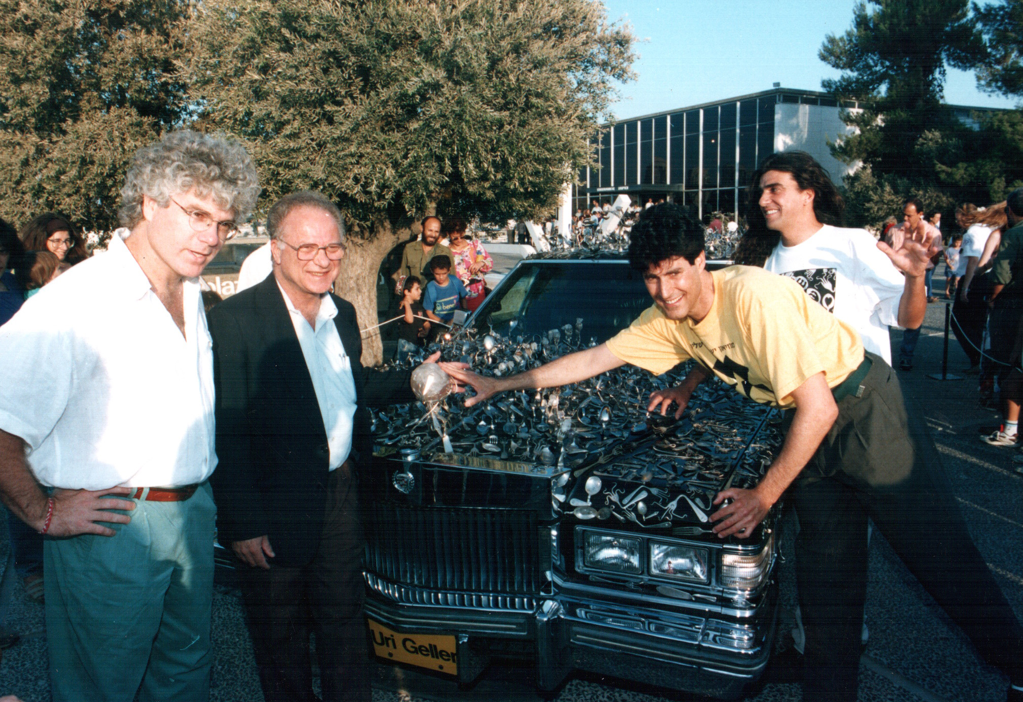 Jerusalem Israel Museum